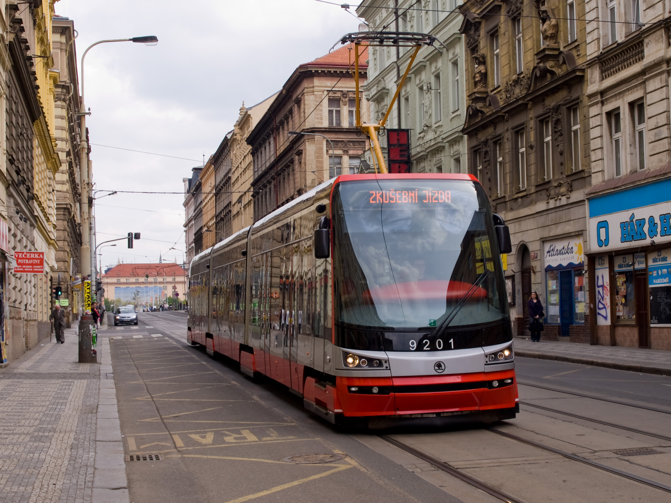 Škoda 15T, Zborovská, Prague 5